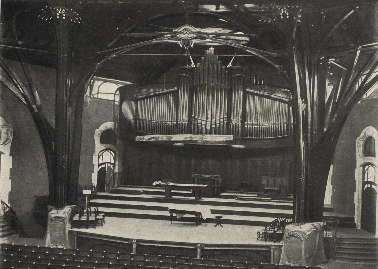 "The Stage of the Hall."